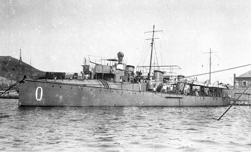 The destroyer Osado, was launched in 1896 and retired 1925.